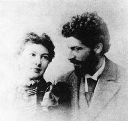 Michele Besso and his wife, Anna Winteler